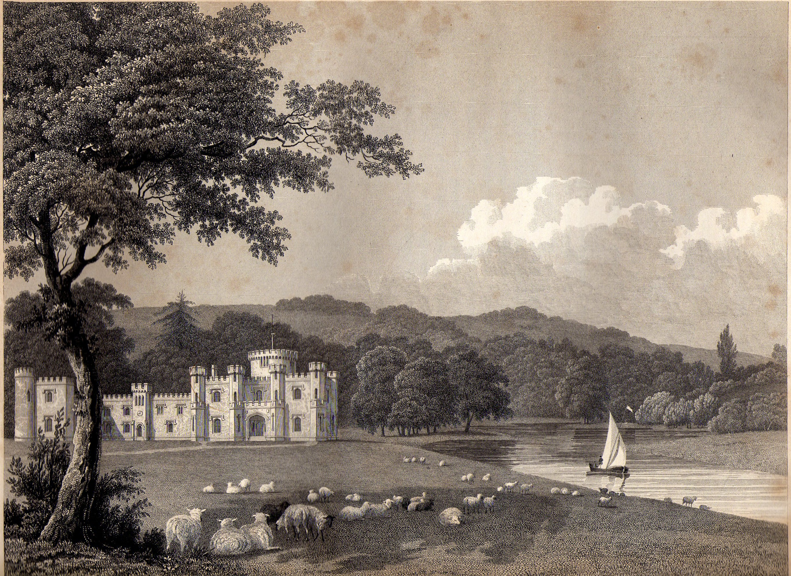 Knepp Castle House, West Sussex, England. Published 1835 in The History, Antiquities and Topography of the County of Sussex by Thomas Walker Horsfield F.S.A.